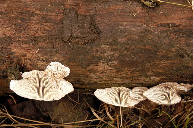 Lenzites betulina from Commanster, Belgium. The determination of the species shown in this picture has been verified.